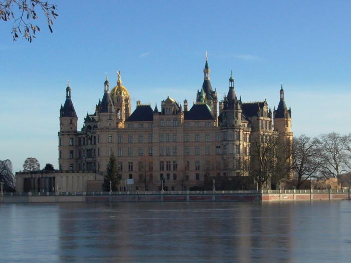 Schwerin Castle seen from shore of Burgsee Picture taken by Daniel van der Ree, The Netherlands